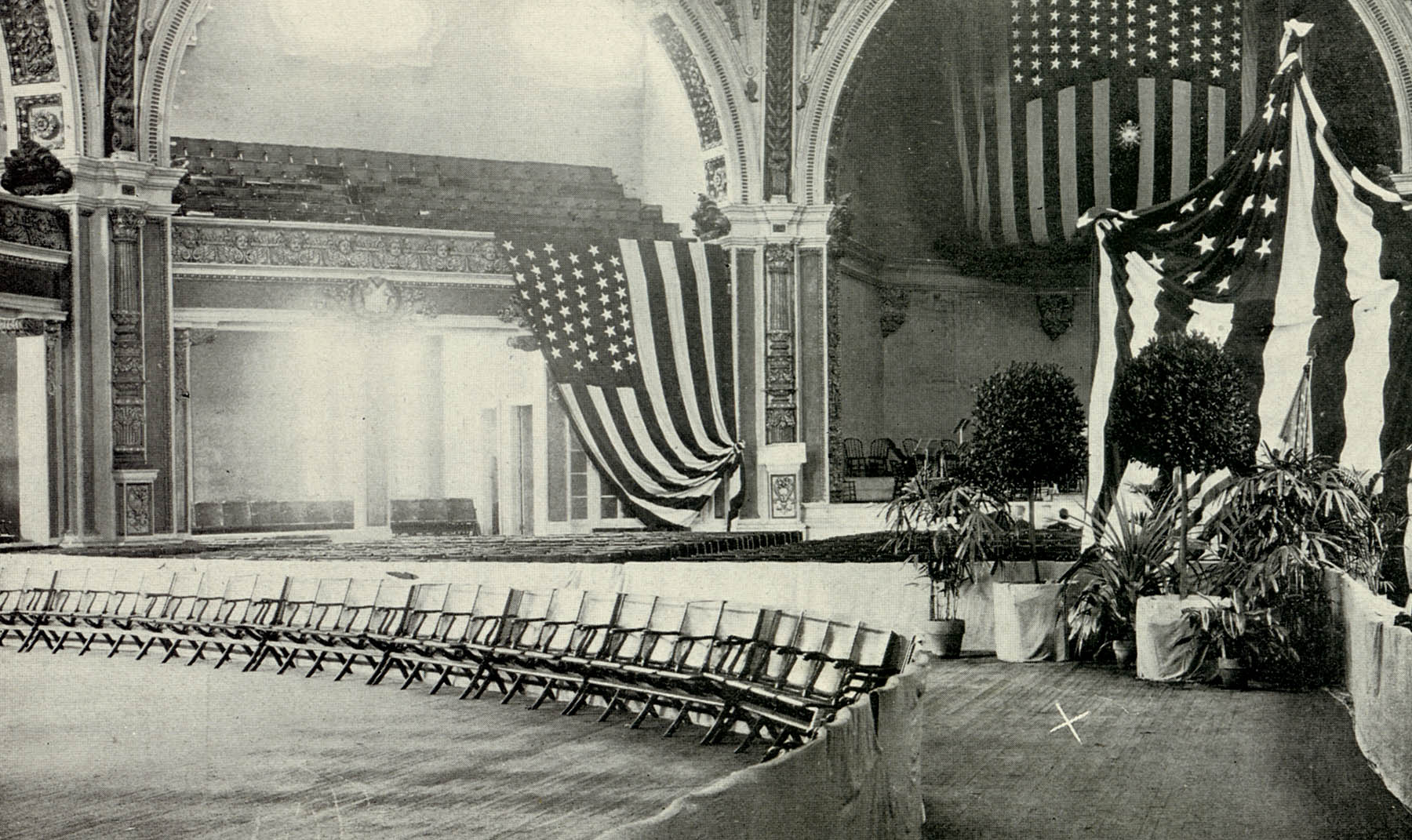 Photograph of the scene of the William McKinley assassination at the Temple of Music, inside the Pan-American Exposition, Buffalo, New York, Sept. 6, 1901. Site of the shooting marked with an X. Photographer: C.D. Arnold. Source: President McKinley's Pan-American Address at Buffalo, N. Y., With a Short Biographical Sketch of the Late President. Buffalo, N. Y. : Bensler & Wesley Printers, 1901. Image available here and booklet from Bensler & Wesley with the photo of the assassination scene available here, in the collection of the University of Buffalo. Image believed to be in the public domain because it was first published in 1901.